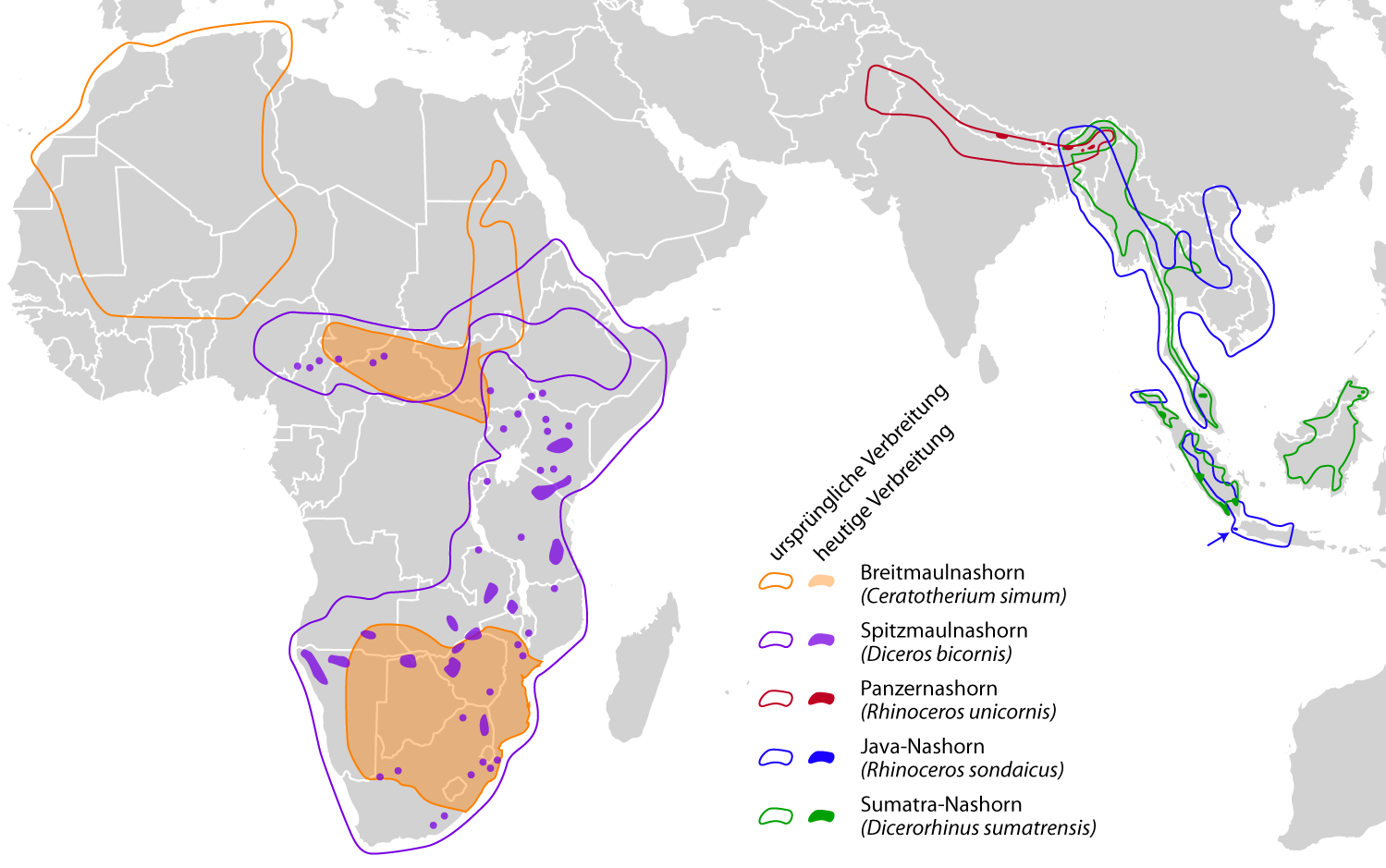 Rhinoceros distribution map